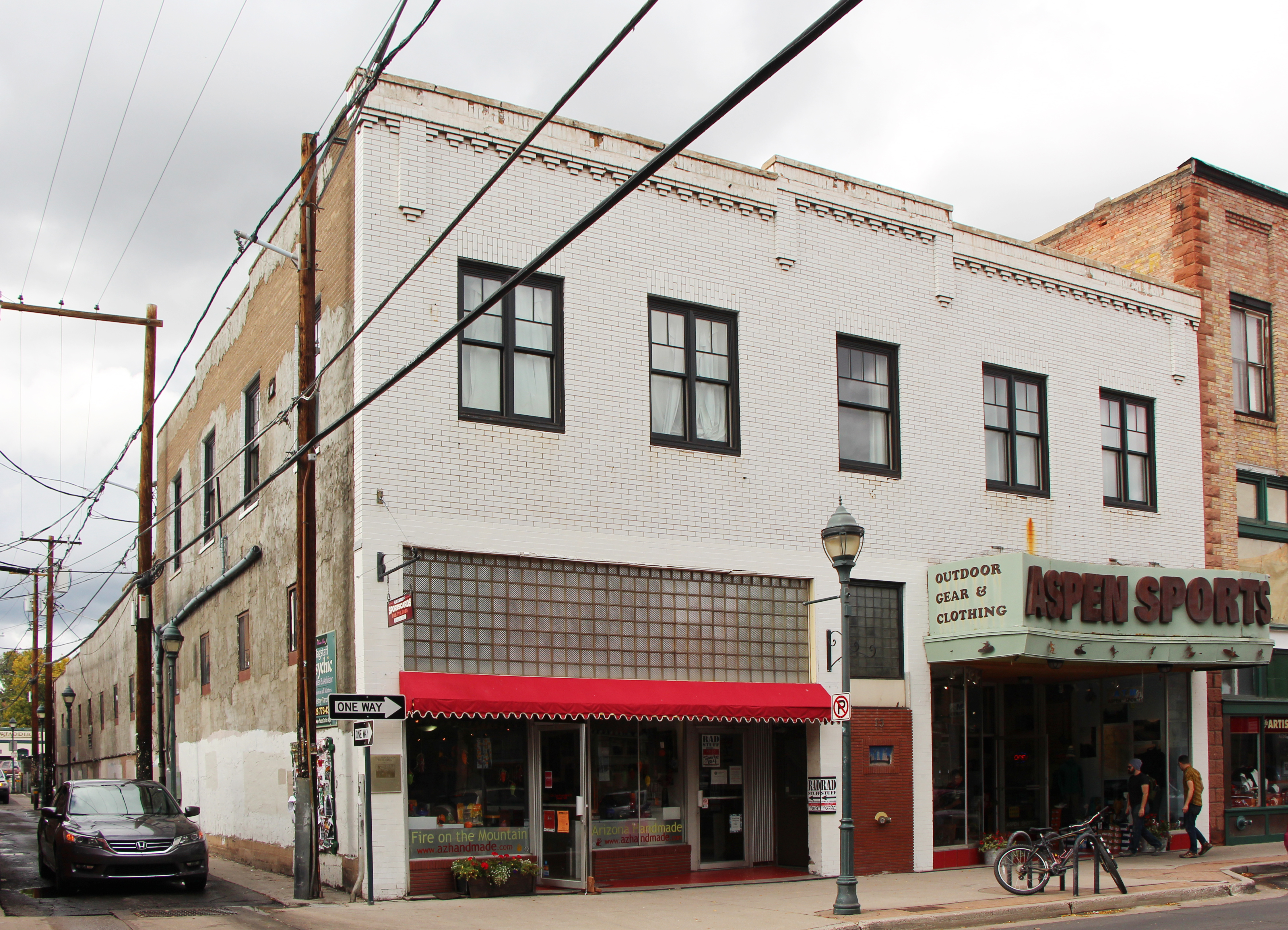 Nackard Building, 15 N San Francisco St, Flagstaff, AZ